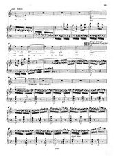 The flight of the Bumblebee, first sheet of the score for piano